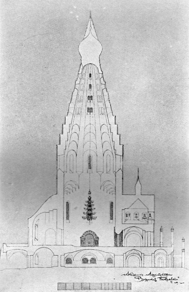 Vladimir Alexandrovich Pokrovsky (1871-1931), design for memorial church in Leipzig